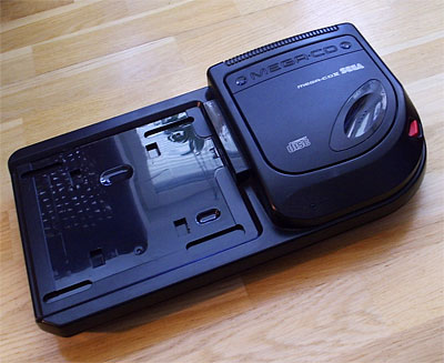 This is a PAL Mega-CD model 2.